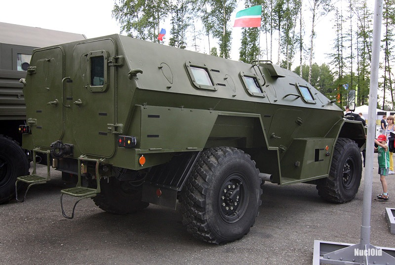 Right-rear view of KAMAZ-43269 "Vystrel" (BPМ-97) on Russian Expo Arms 2009 in Nizhny Tagil